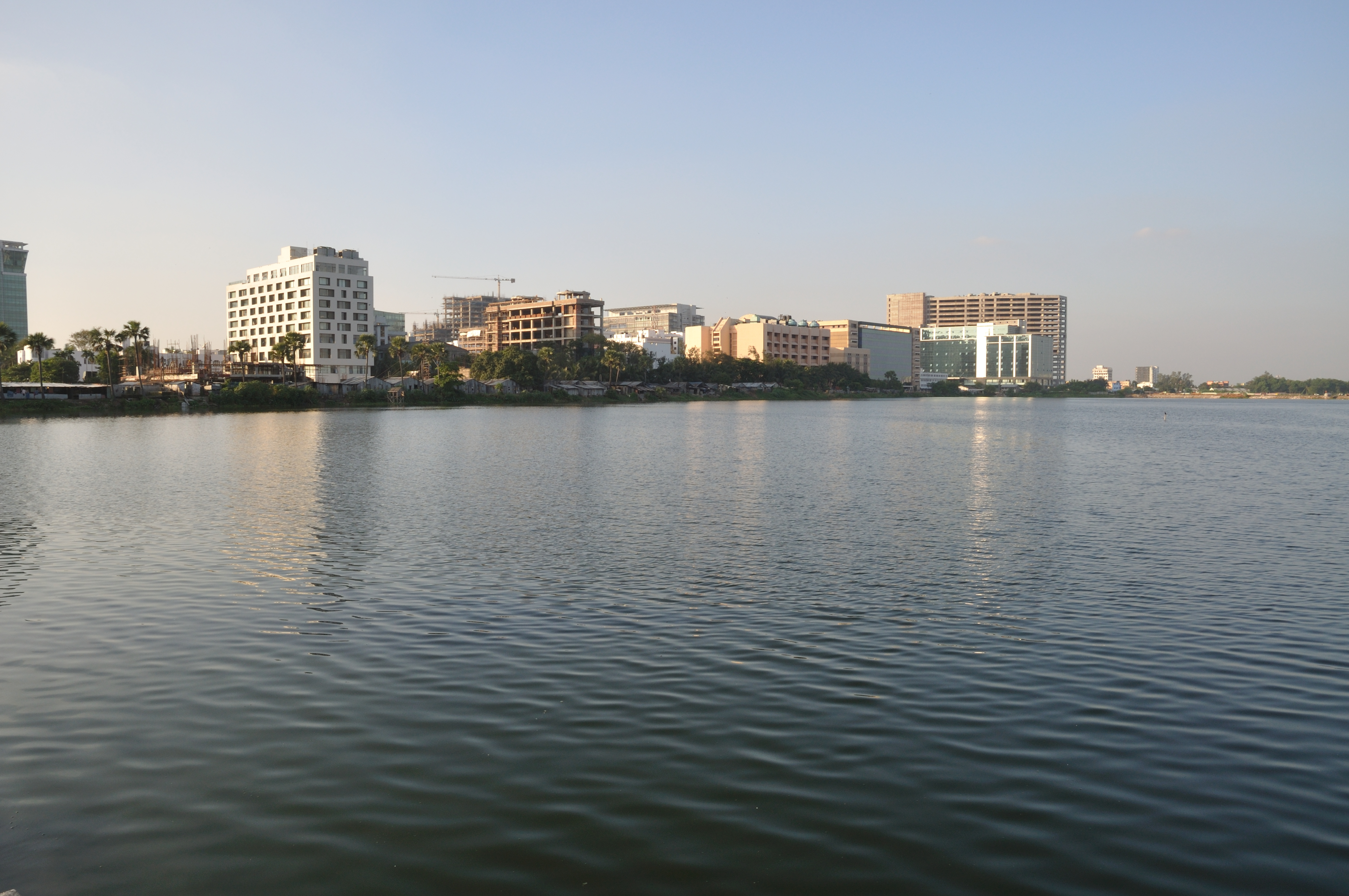 Bidhan Nagar or Salt Lake City as it is popularly called, is a planned satellite township in the Indian state of West Bengal.It is the Information Technology hubThe city was built on a reclaimed salt-water lake, which gave rise to its popular name of "Salt Lake City". The photo was taken from 1KM away from the SDF building.